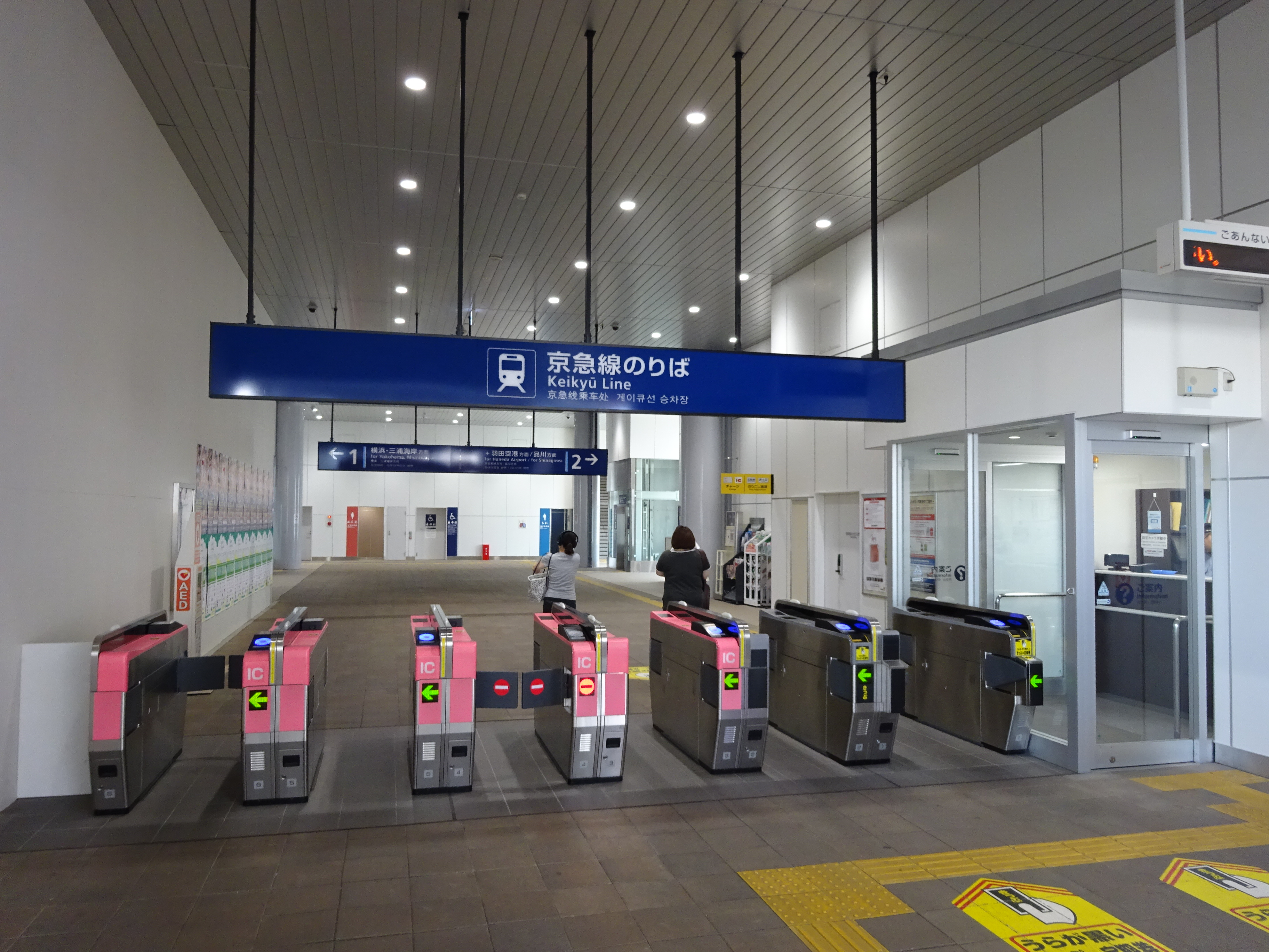 Ticket barriers of Zōshiki Station